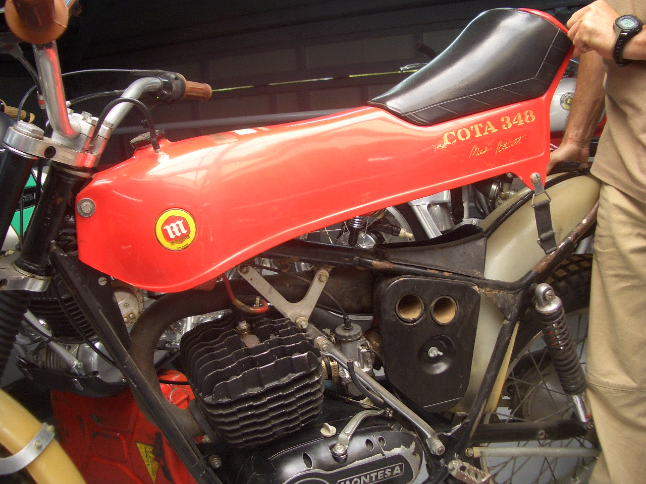 Montesa Cota 348 1977: tank